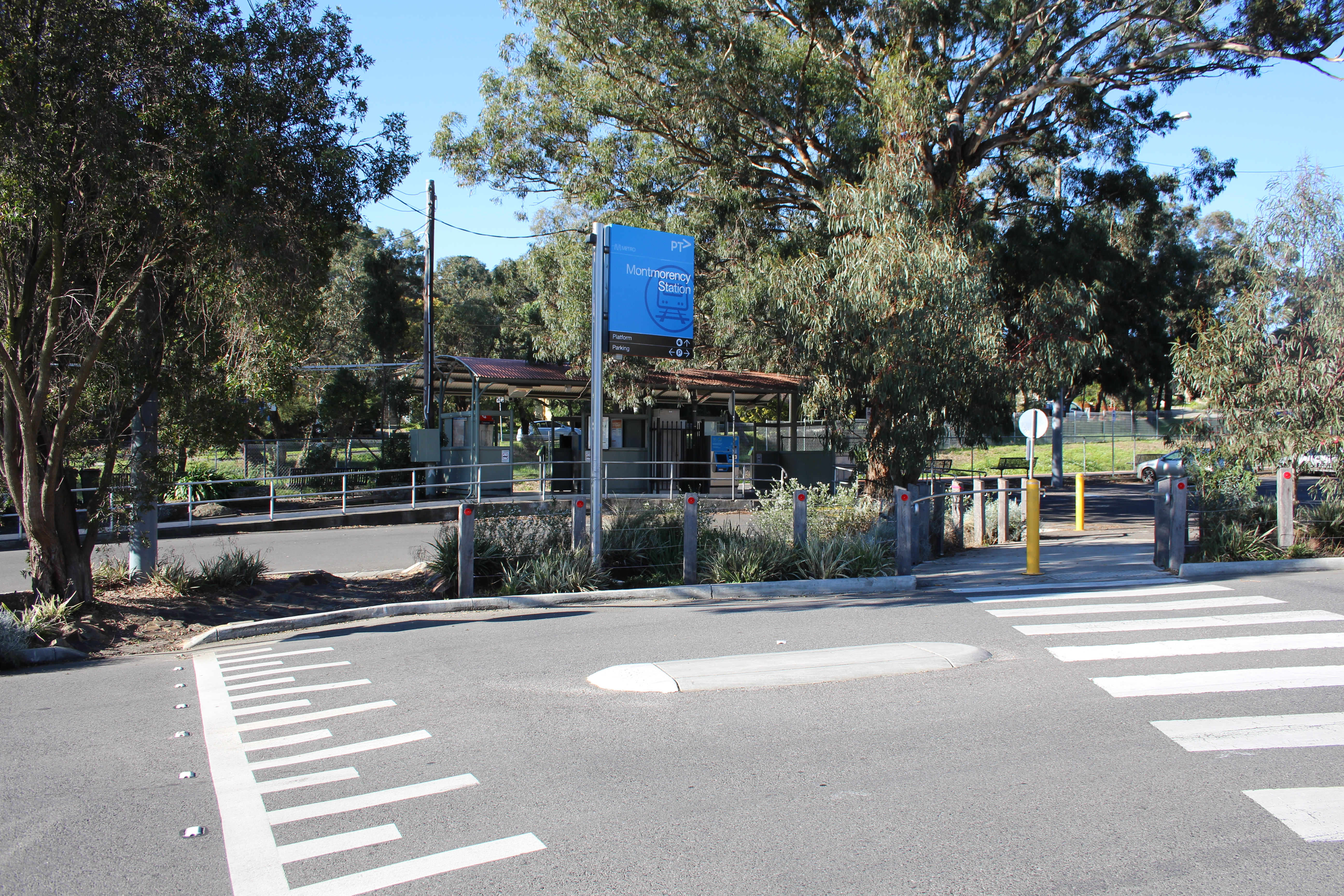 Montmorency Station, view from cafe opposite station entrance.